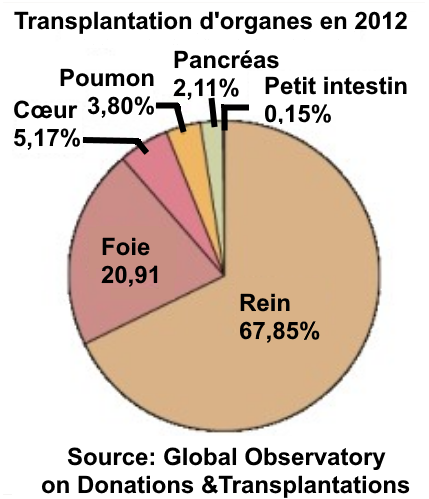 Organ transplantation in 2012